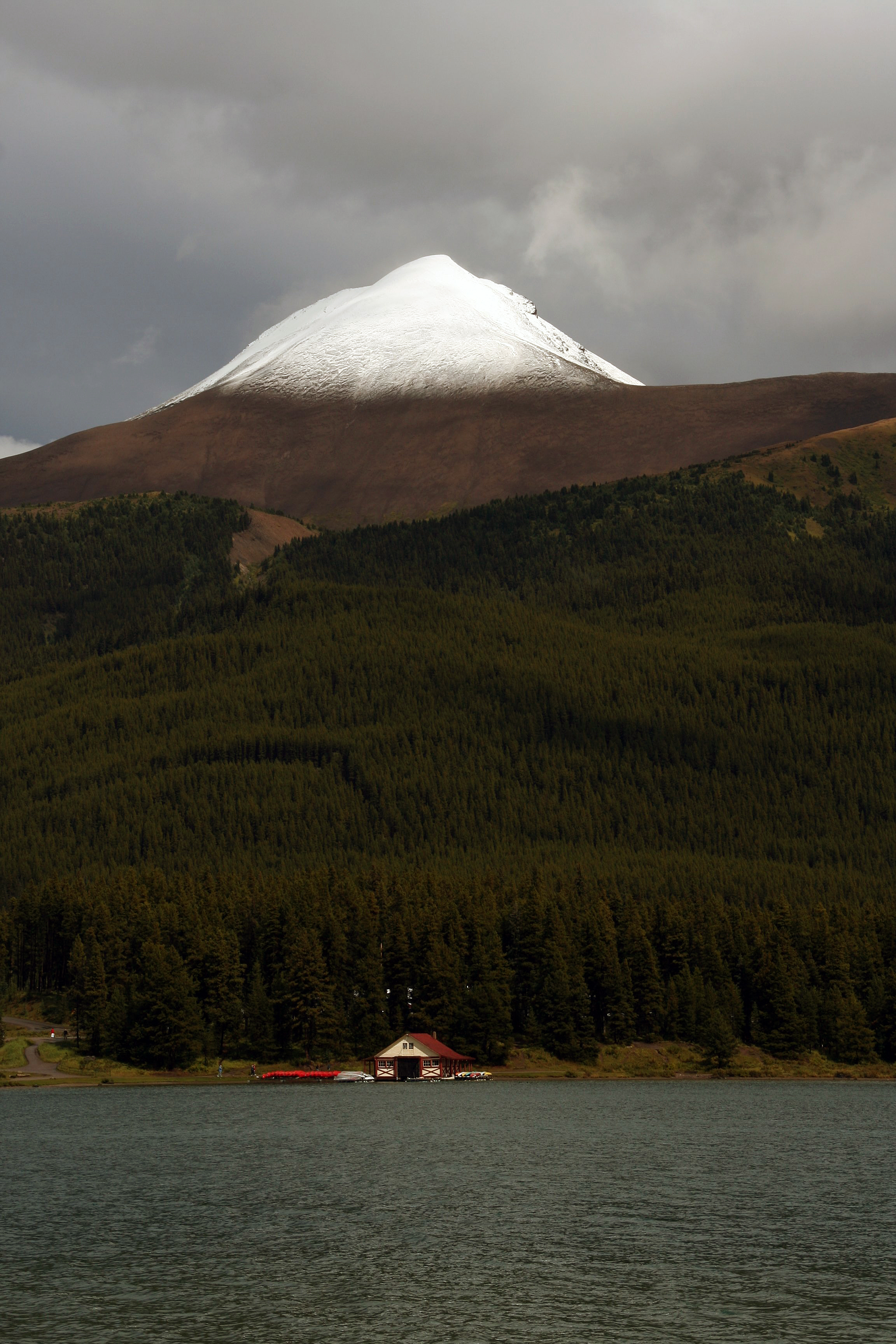 Jasper National Park: Boat House at Maligne Lake with Opal Peak above.